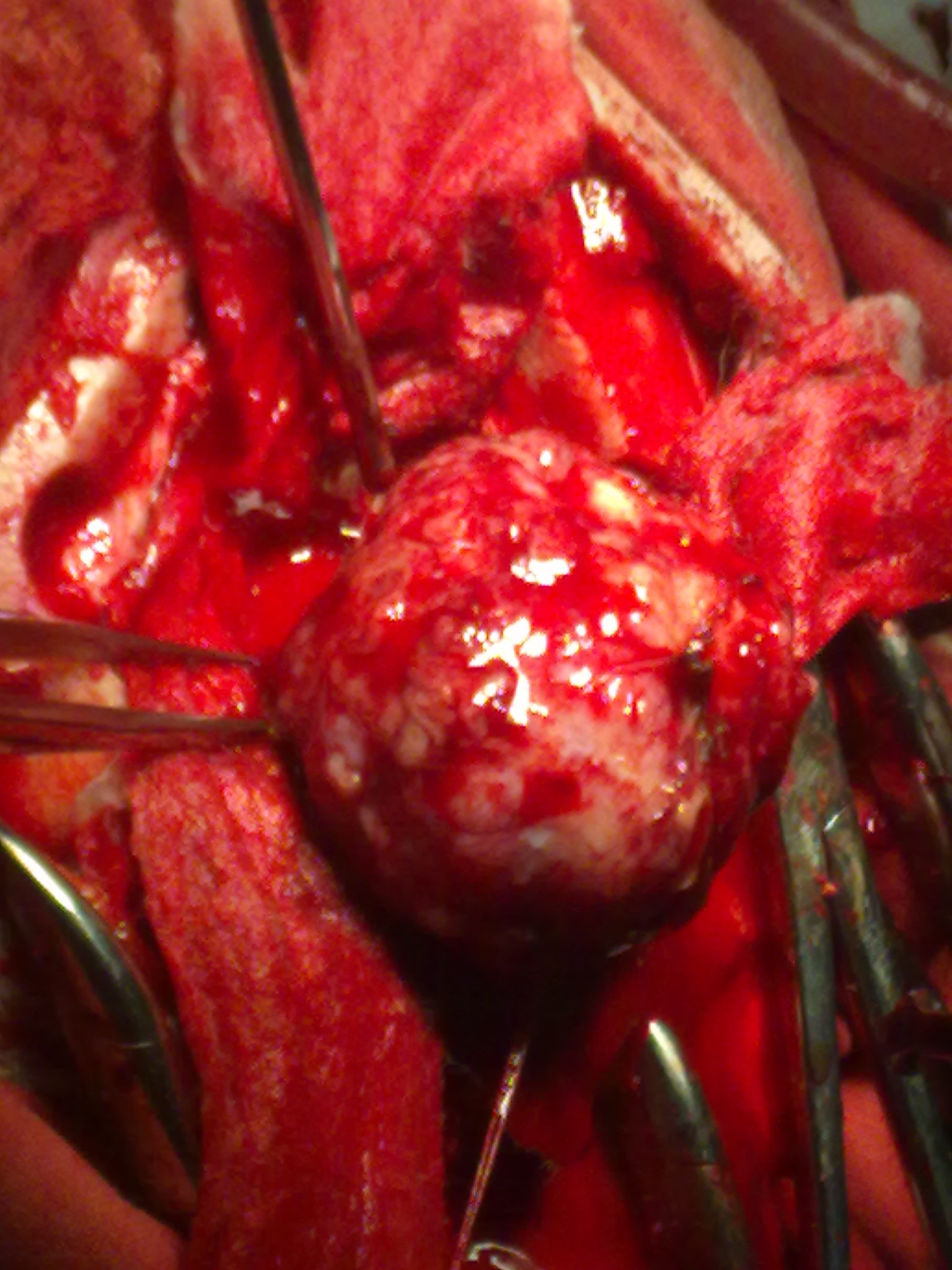 big cerebral carcinoma